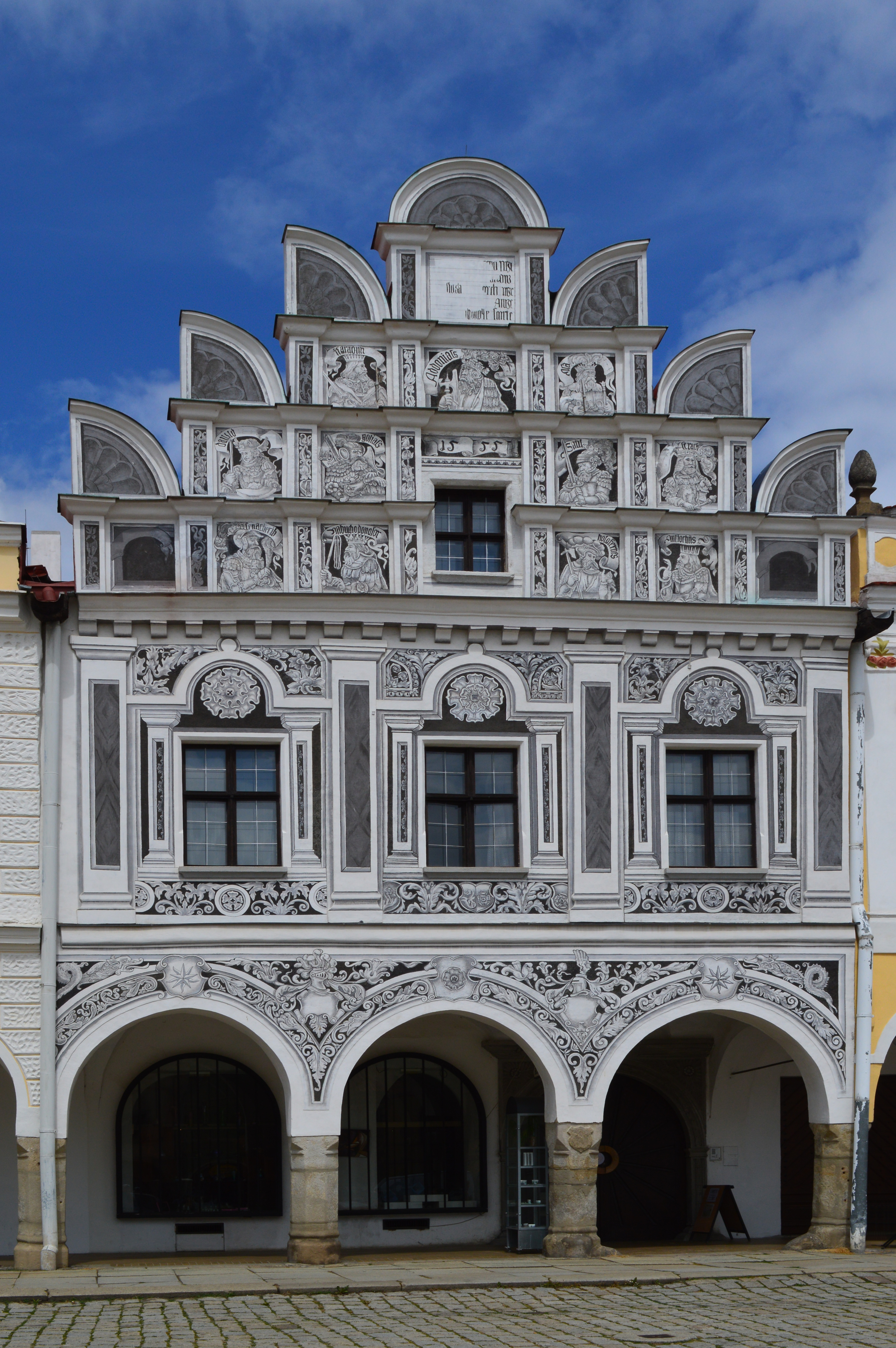 Telč is a town in southern Moravia, near Jihlava in the Czech Republic, that was founded in the thirteenth century as a royal water fort on the crossroads of busy merchant routes between Bohemia, Moravia and Austria. The Gothic castle was built in the second half of the fourteenth century and at the end of the fifteenth century the castle fortifications were strengthened and a new gate-tower built. In the middle of the sixtteenth century the medieval castle no longer satisfied Renaissance nobleman Zachariáš of Hradec, who had the castle altered in the Renaissance style. Besides the monumental Renaissance chateau, the most significant sight is the town square, a unique complex of long urban plaza with well-conserved Renaissance and Baroque houses boasting high gables and arcades - since 1992 all of this has been a UNESCO World Heritage Site. The column of the Virgin Mary and the fountain in the centre of the square date from the eighteenth century. The Scotch Mist Gallery contains many photographs of historic buildings, monuments and memorials of Poland and beyond.